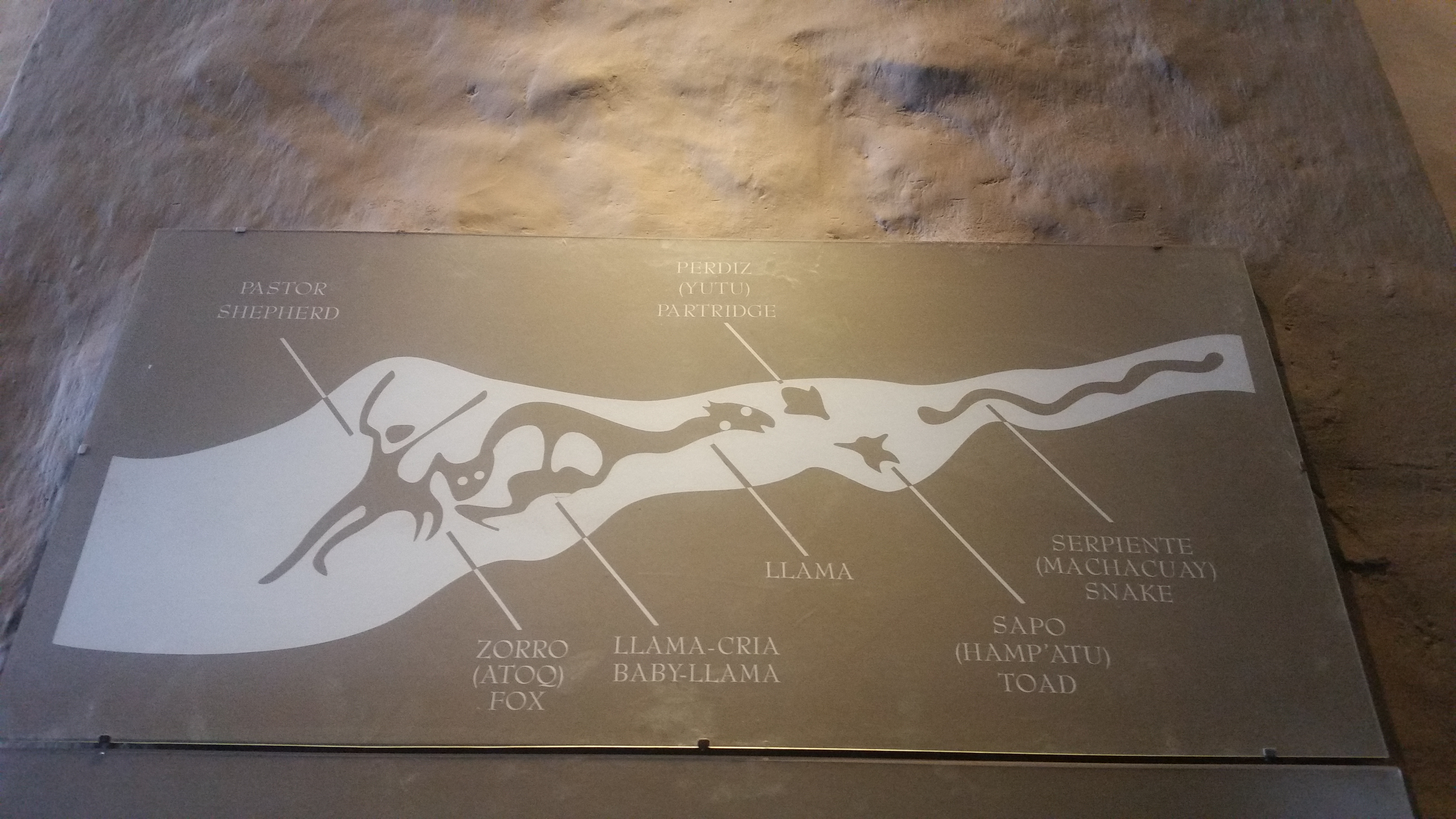 Coricancha museum marker graphically explaining the Inca astronomical system